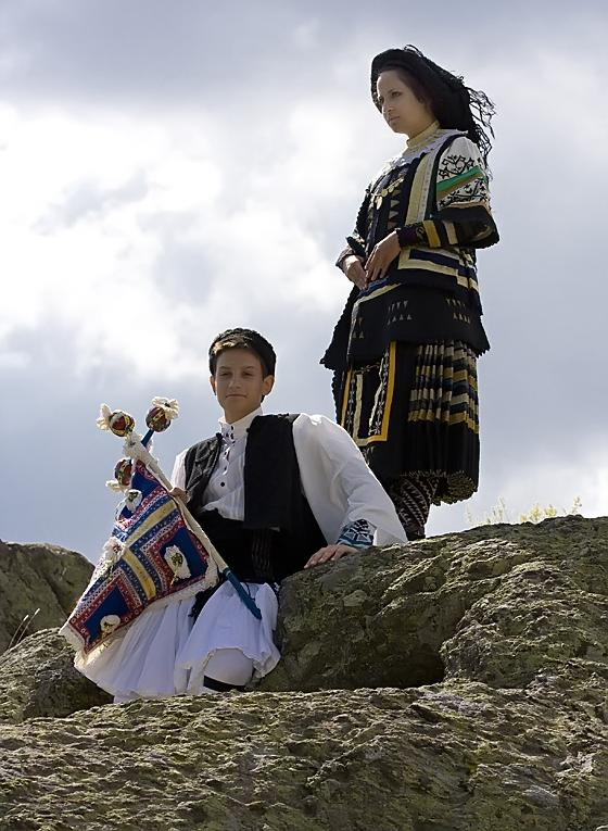 Karakacan Greeks in Kotel, Bulgaria.